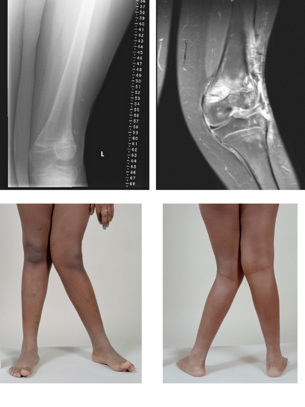 X-ray and MRI images of Valgus deformity